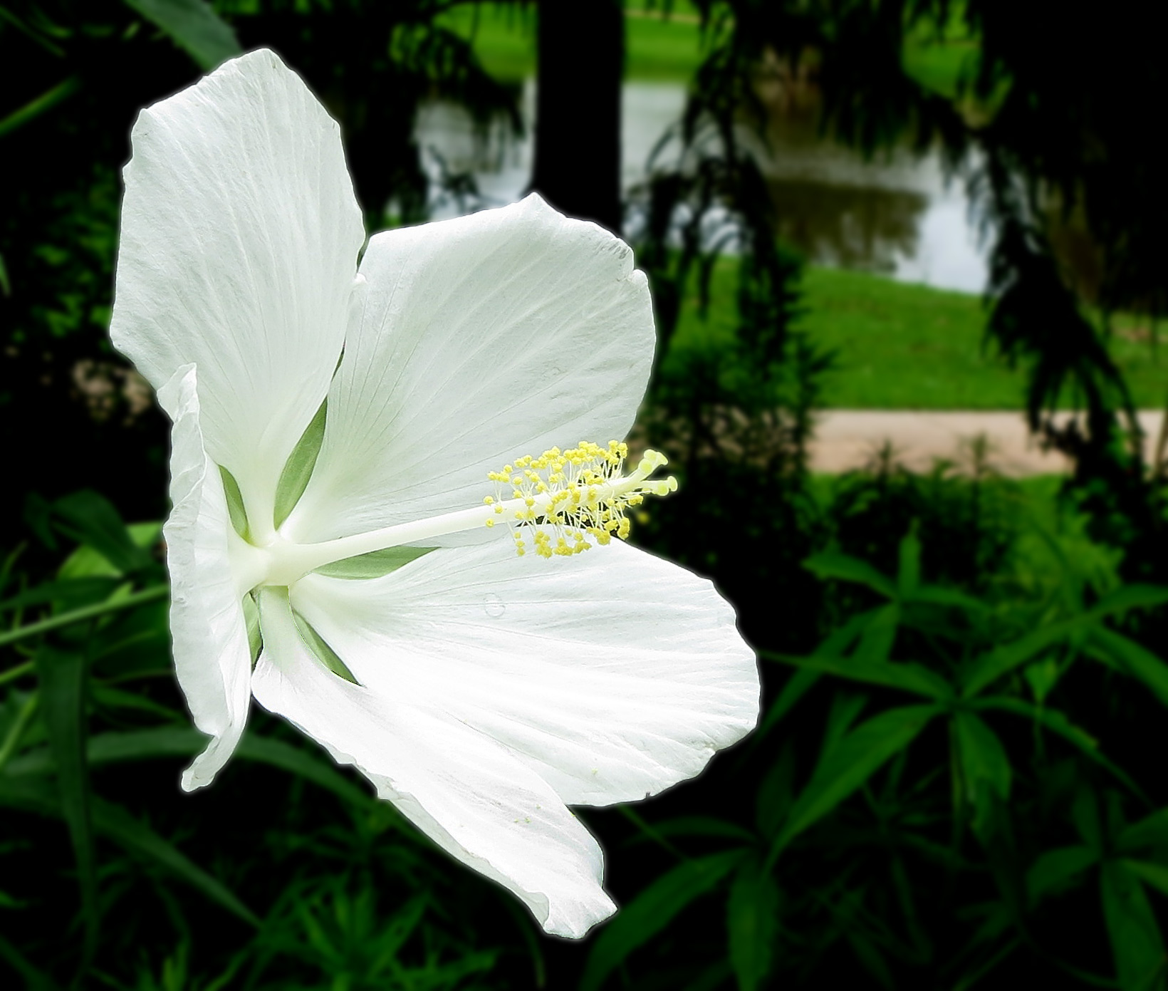 White Texas Star hibiscus -- Hibiscus coccineus 'Alba'